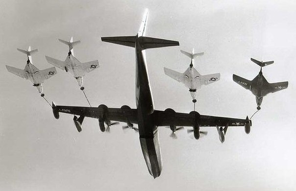 A U.S. Navy Convair R3Y-2 Tradewind set a record by simultaneously refueling four Grumman F9F-8 Cougar fighters in September 1956.